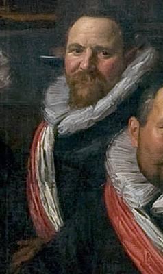 Portrait of Hugo Mattheusz. Steyn in The Banquet of the officers of the Saint George Civic guard in Haarlem in 1616, detail